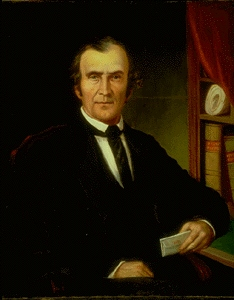 An oil portrait of Indiana Governor Samuel Bigger (1802 - 1846).